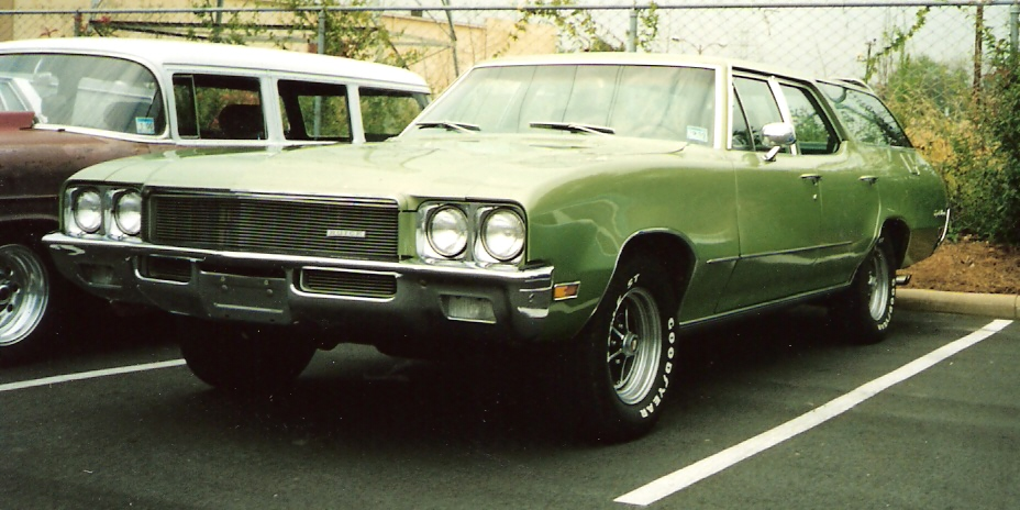 1971 Buick Sport Wagon I photographed in Charlotte, North Carolina in June 1999.